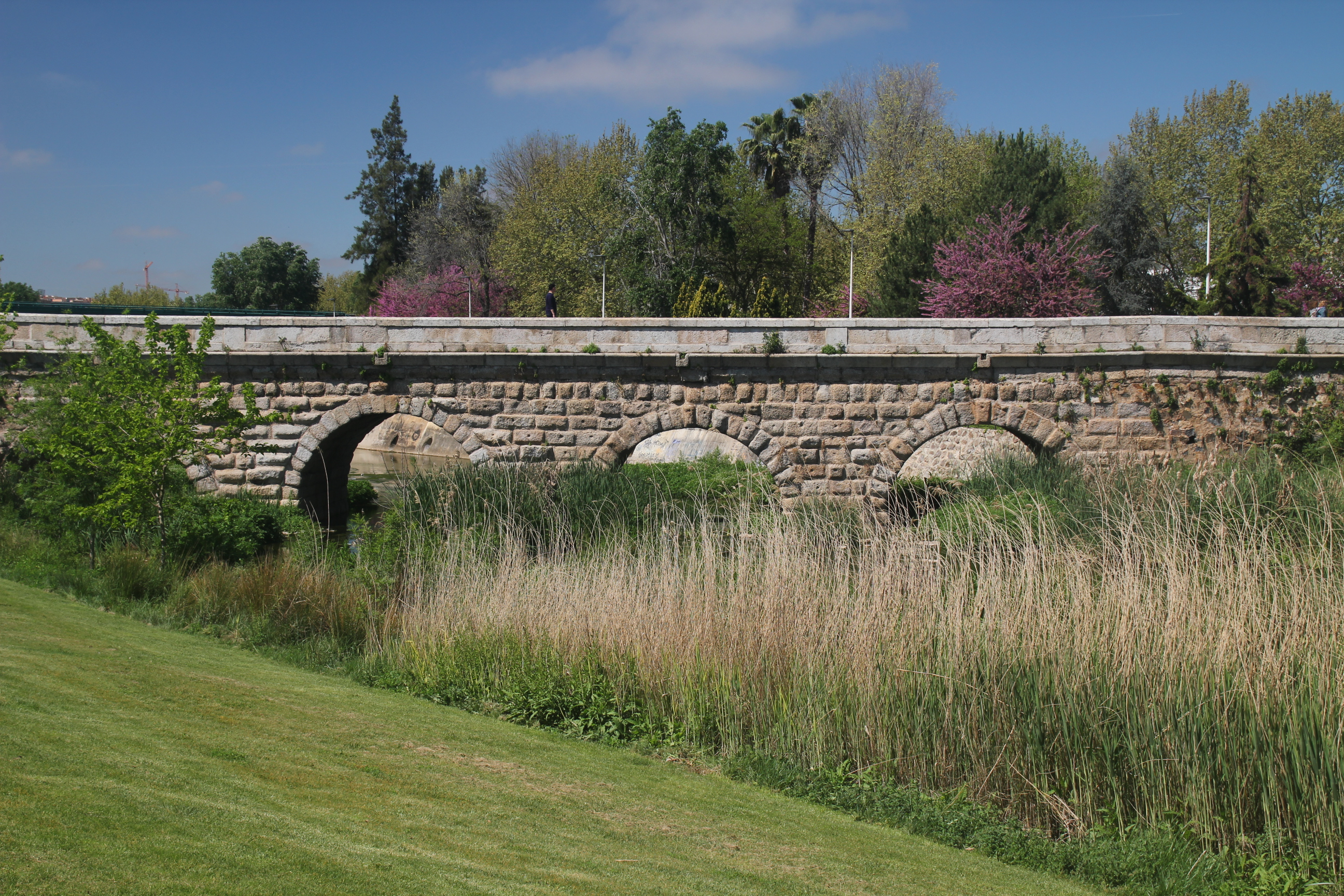 Roman Bridge over the Albarregas river